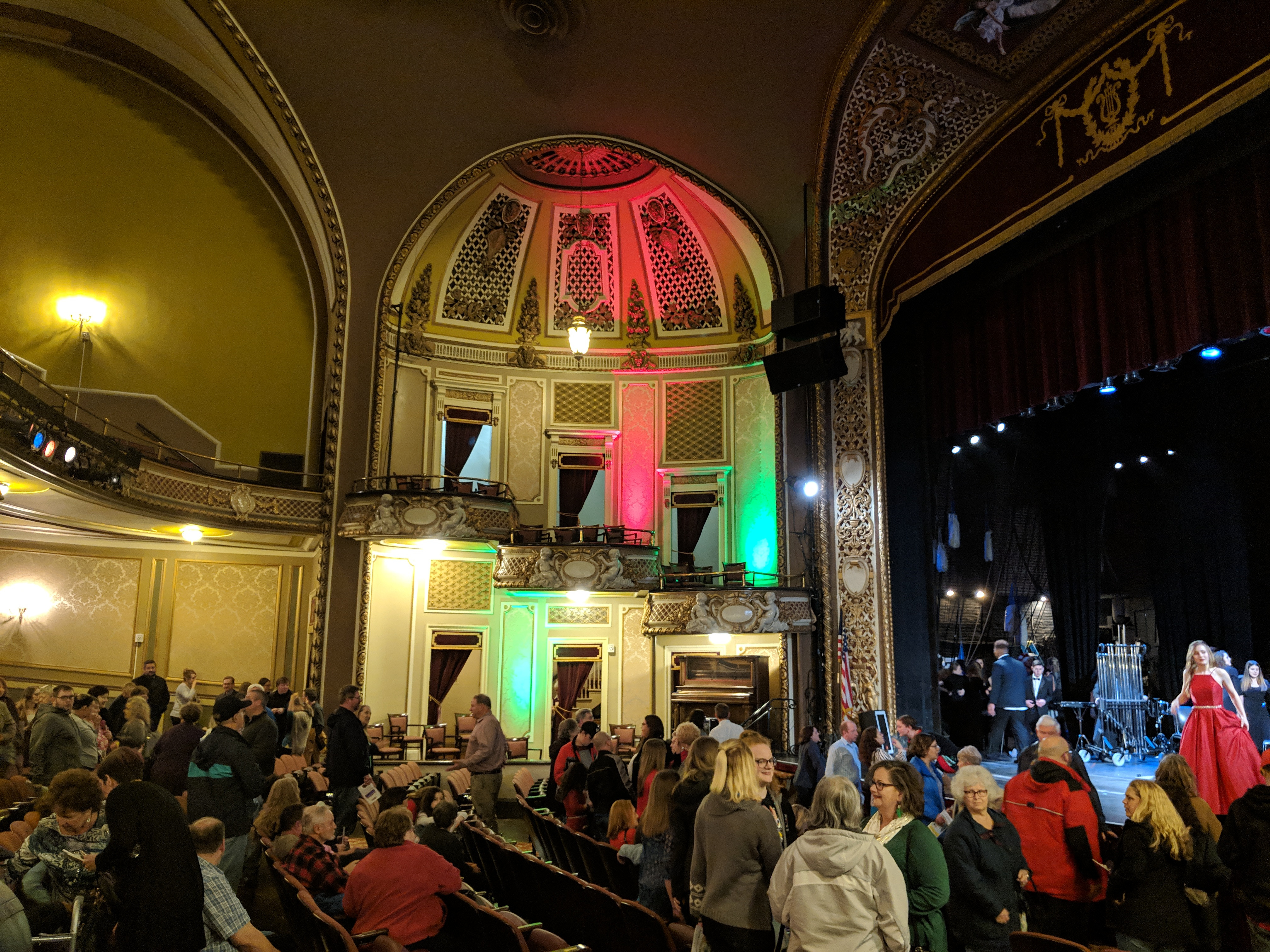 The original 1915 Neoclassical auditorium at the Maryland Theatre in Hagerstown, Maryland.